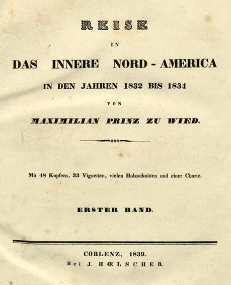 Title-page of the book: Reise in das innere Nord-America in den Jahren 1832 bis 1834, first volume.